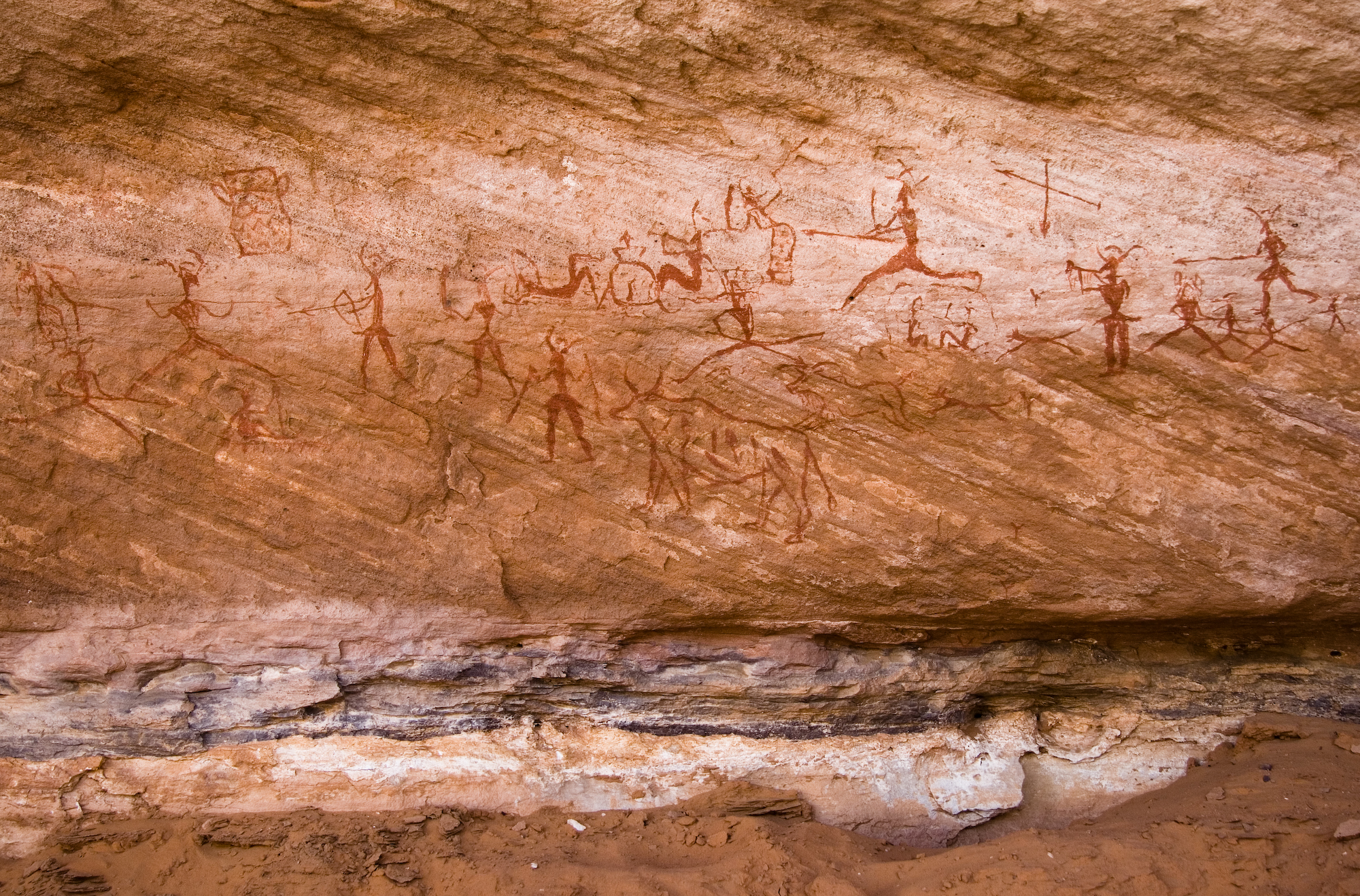 Rock paintings in Tadrart Acacus region of Libya dated from 12,000 BC to 100 AD. There are paintings and carvings of animals such as giraffes and elephants reflecting the dramatic climatic changes in the area.